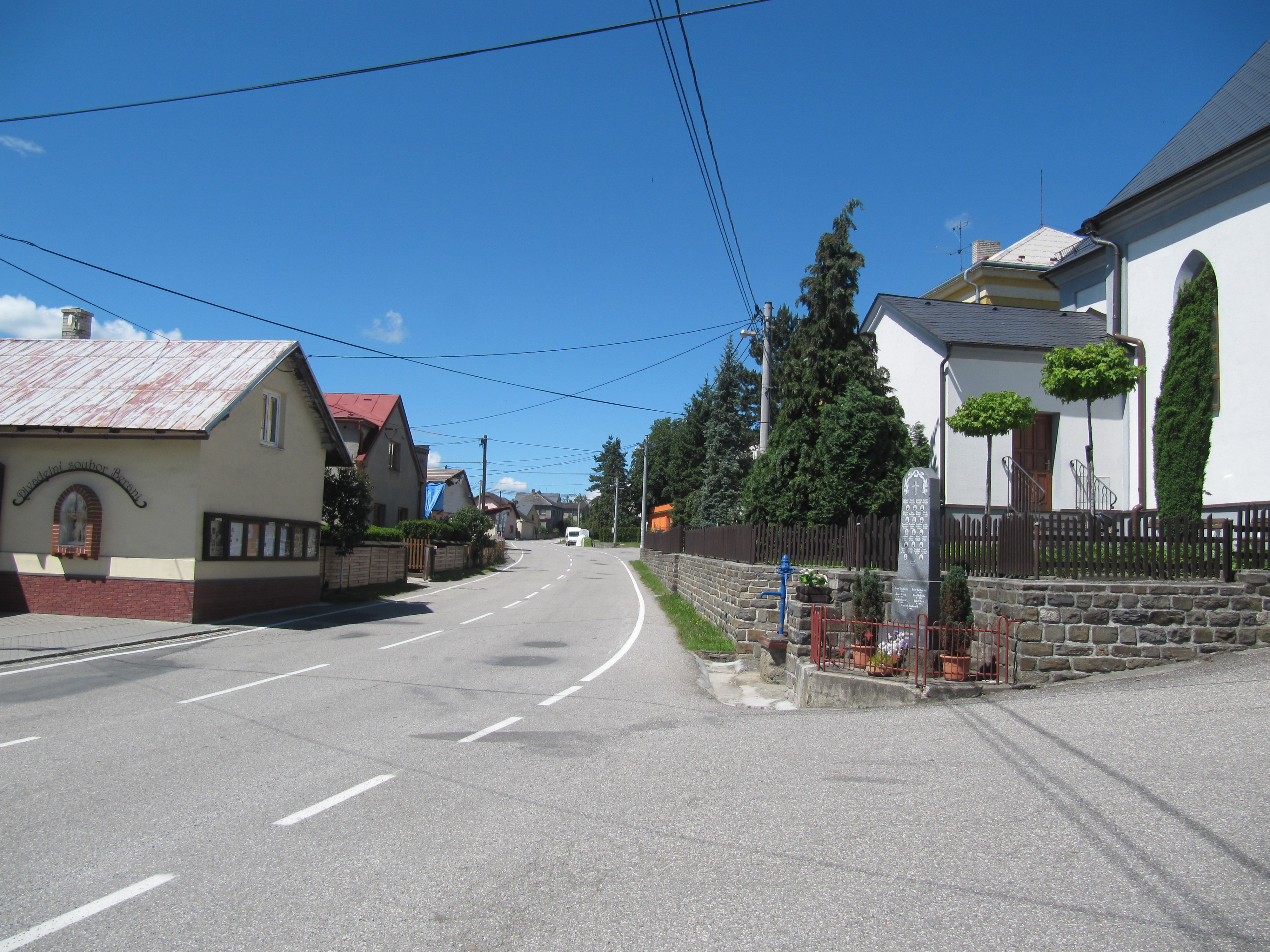 Těškovice, Opava District, Czech Republic.